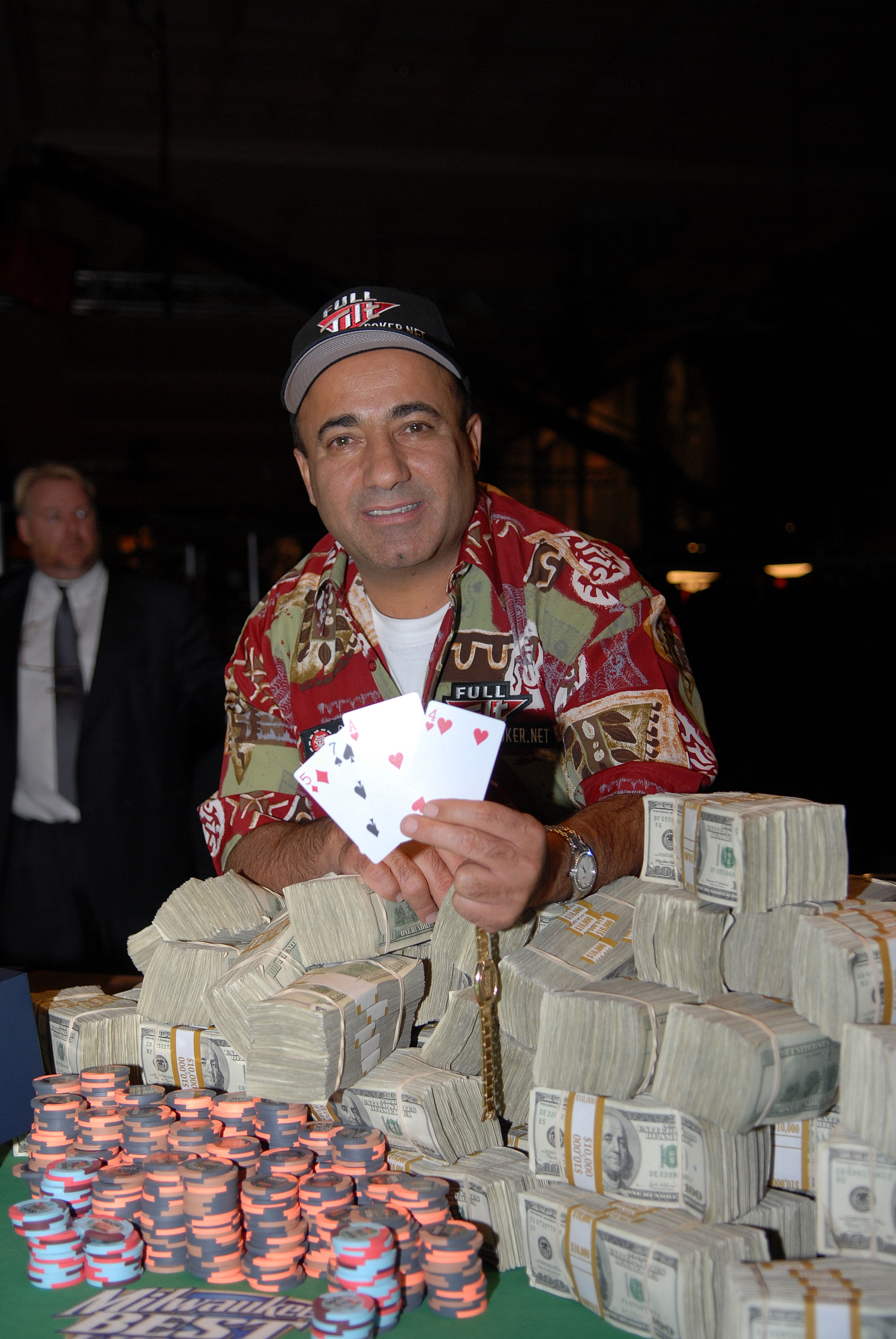 Freddy Deeb at the 2007 World Series of Poker after winning the $50K HORSE Event.